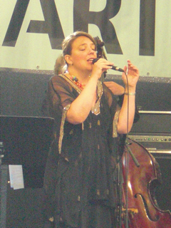 Josefine Cronholm within the concert of Marilyn Mazur's ‚Celestrial Circle‘ at KlangArt Wuppertal, Germany, July 3rd, 2011